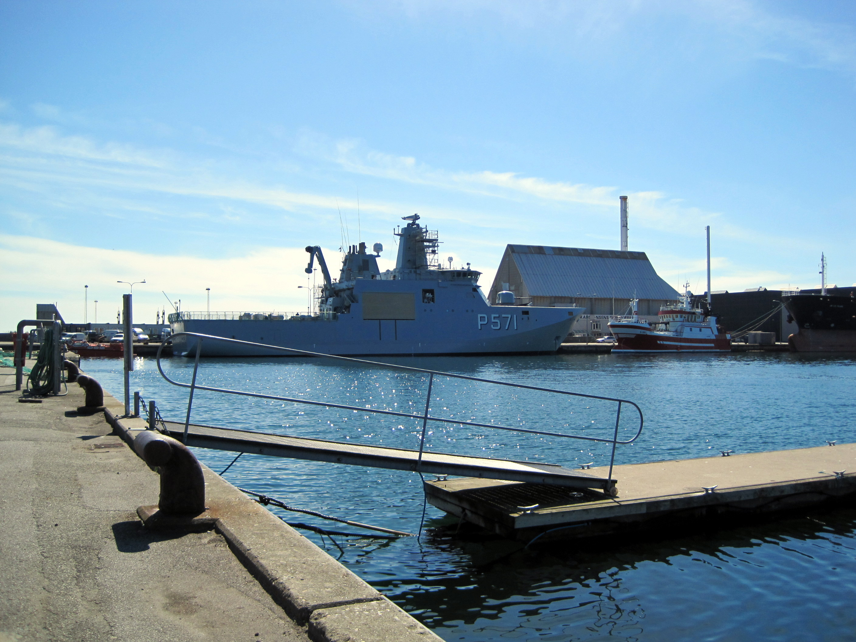 Danish patrol vessel HDMS Ejnar Mikkelsen (P571)in Skagen harbour.